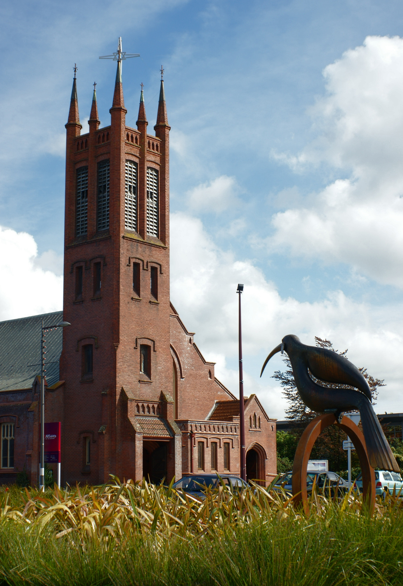 All Saints Anglican Church, Palmerston North (c.1914) The wooden church hall was originally built as All Saints Church in 1881. It replaced the first Anglican church built on the site in 1875, which was incorporated into this building. The church was enlarged in 1891 and 1901, and the bell tower removed between 1904 and 1910 because the wood was rotten. In 1910 the church was moved back and placed sideways on the section to make room for the current All Saints Church to be built in brick. It was completed in 1914 in "Edwardian Free Gothic" style. The old church was then used as a hall and Sunday school until 2007, when it was destroyed by arson. All Saints has a Category I NZ Historic Places Trust listing, with registration number 191.